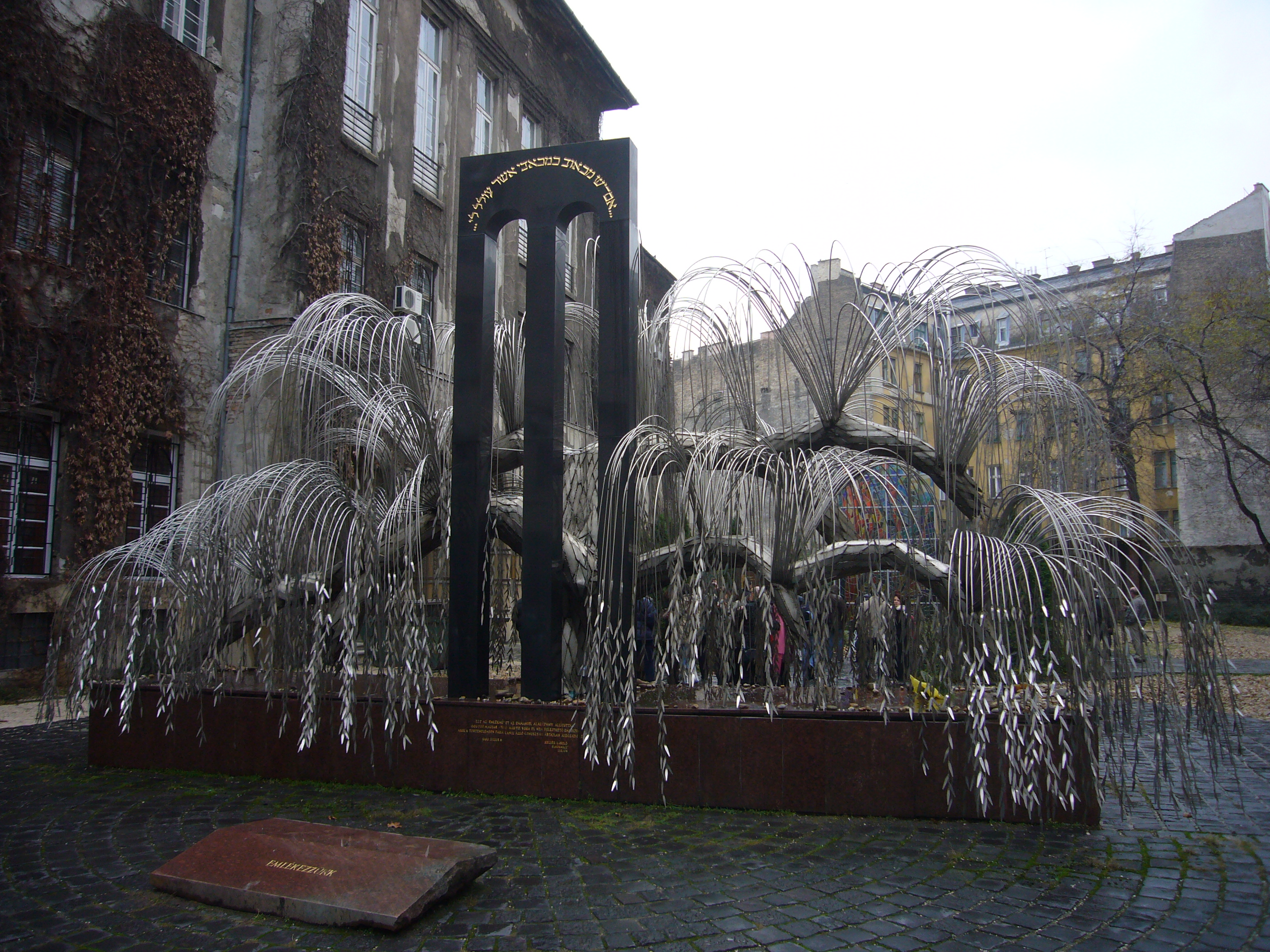 Memorial of the Hungarian Jewish Martyrs in Budapest. The weeping willow monument to Hungarian victims of the Holocaust. Each leaf is inscribed with the family name of one of the victims. Hungary.